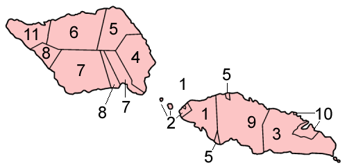 Map of the districts of Samoa, numbered in alphabetical order. Made by User:Golbez.